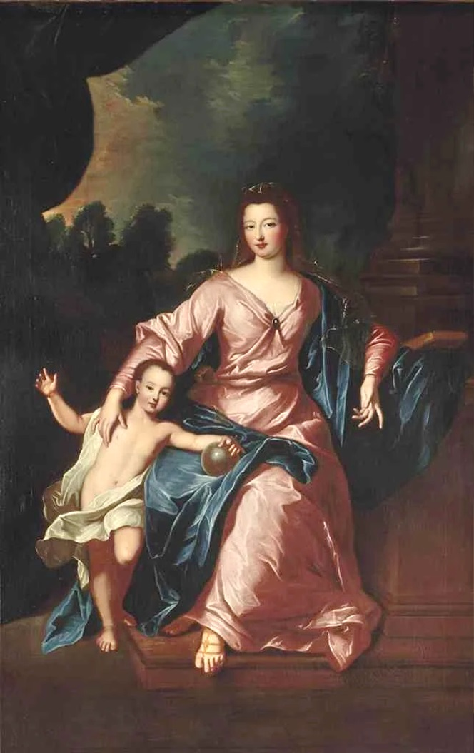 Portrait identified as Françoise Marie de Bourbon with her son Louis, Duke of Orléans (1703–1752)